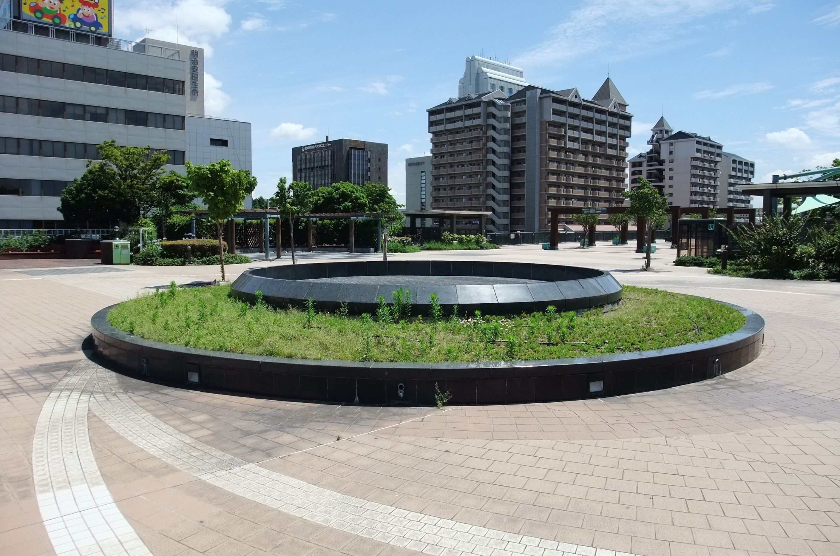 Hanging_gardens_of_Amagasaki (Amagasaki Station (Hanshin) - Archaic Hall) in Amagasaki, Hyogo prefecture, Japan